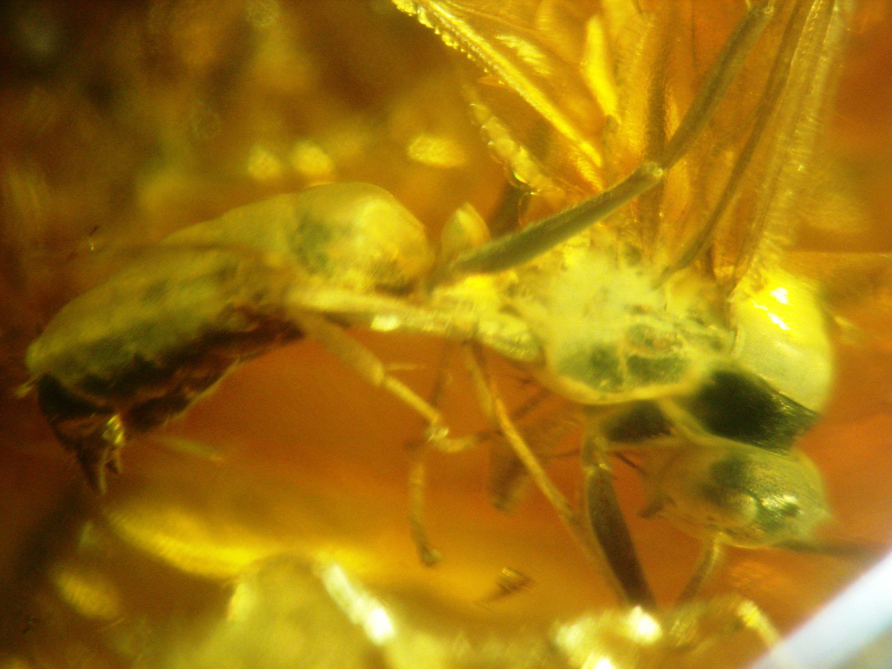 Baltic amber inclusions - 40-50 million years old - Ant (Hymenoptera, Apocrita, Vespoidea, Formicidae, ...?) About 6 mm long. There is more photos of this ant in the category: Images from Baltic-amber-beetle - picture: Baltic amber inclusions - Ant (Hymenoptera, Formicidae)- number 6 and 7 is close up photos